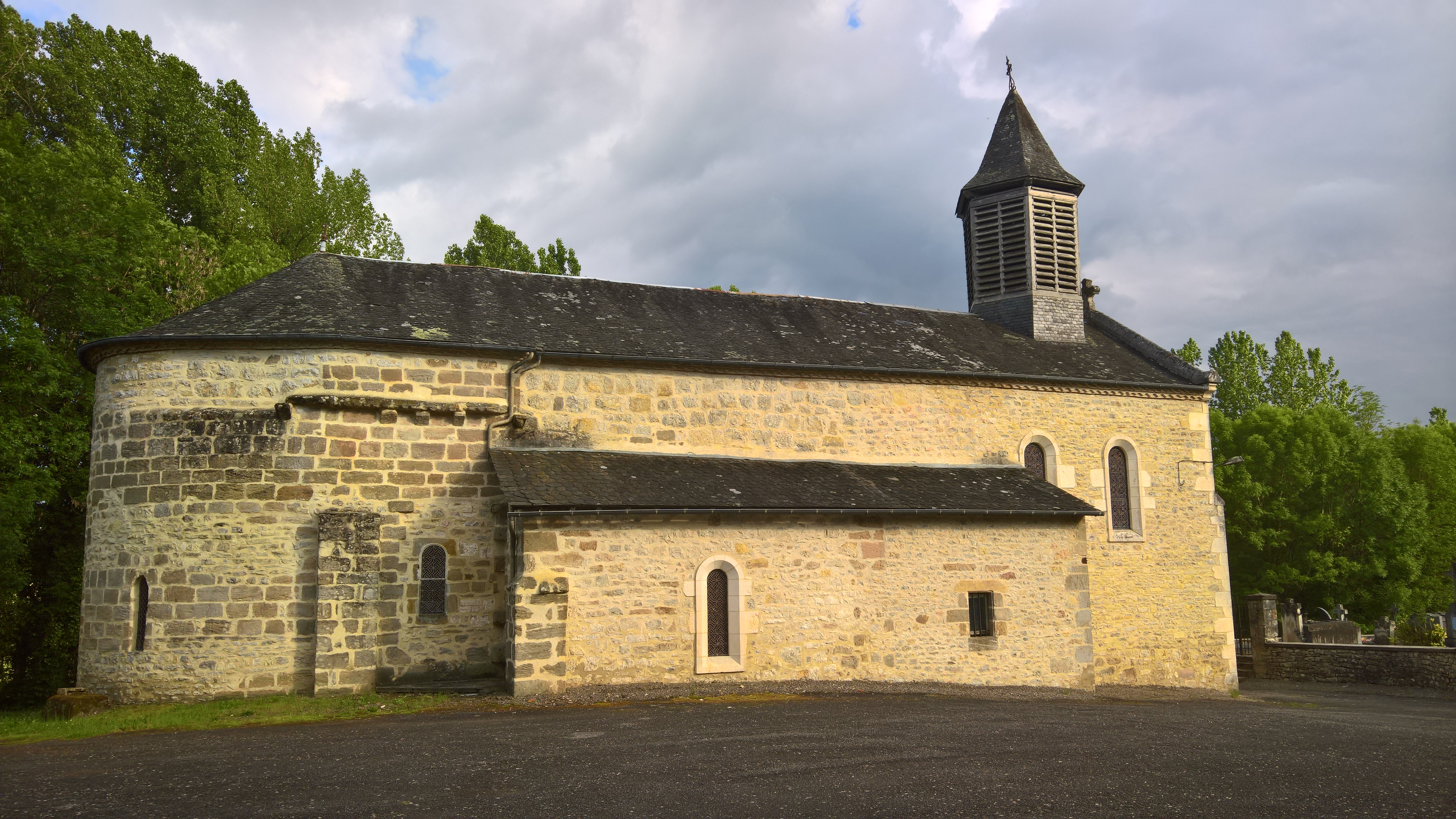 Village church from the side